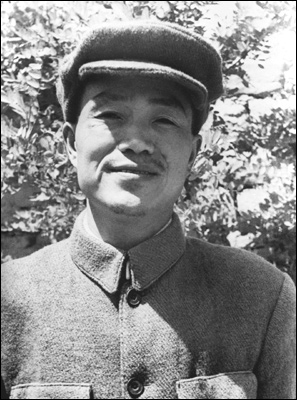 Hu qiaomu